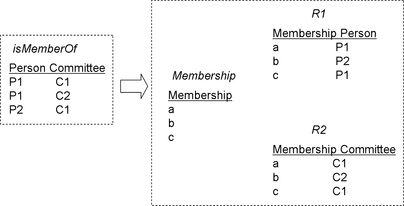 I created this example of a reified relation myself. The example supports article on Reification in computer science.